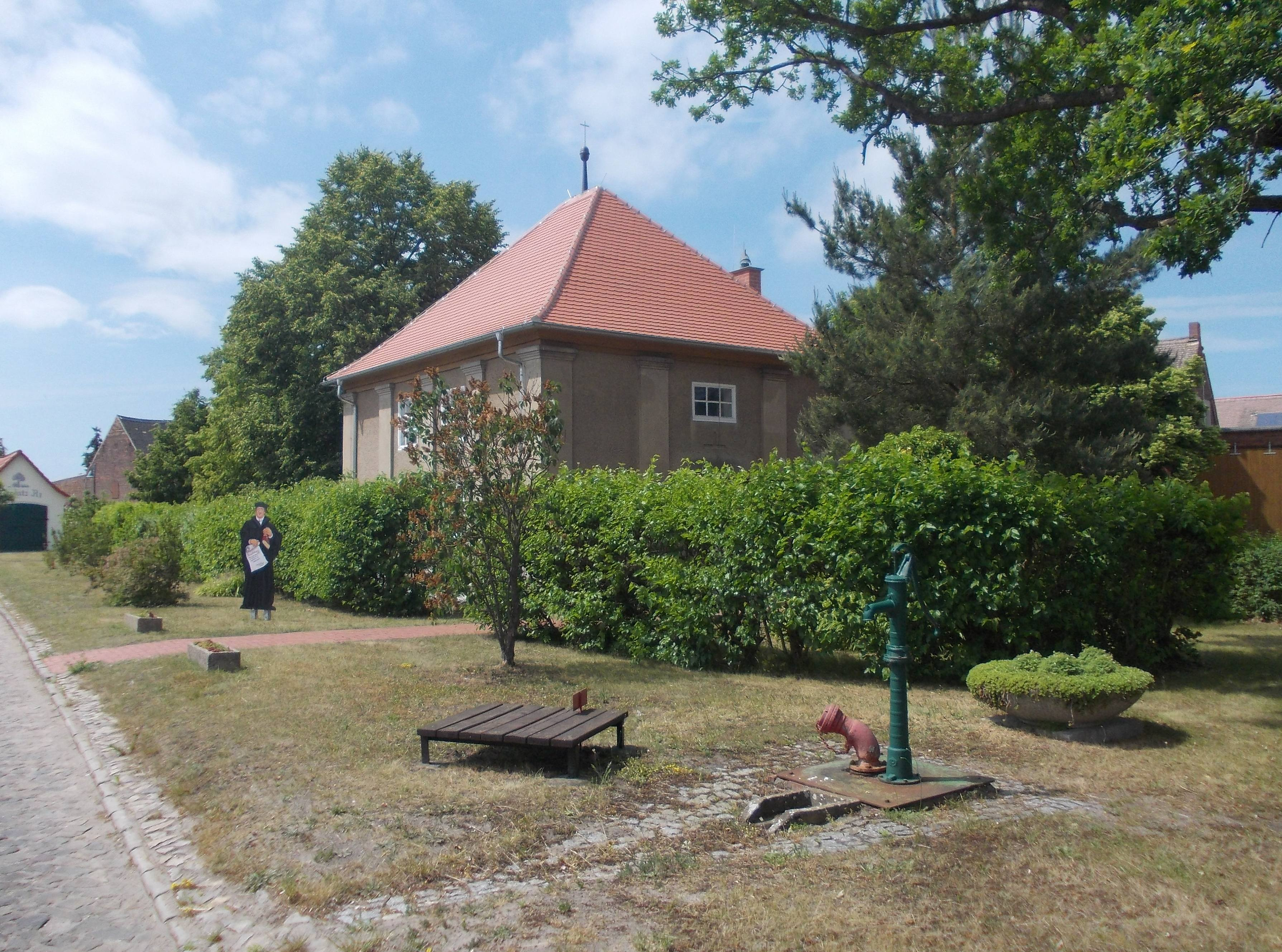 Chörau prayer house (Osternienburger land, Anhalt-Bitterfeld district, Saxony-Anhalt)